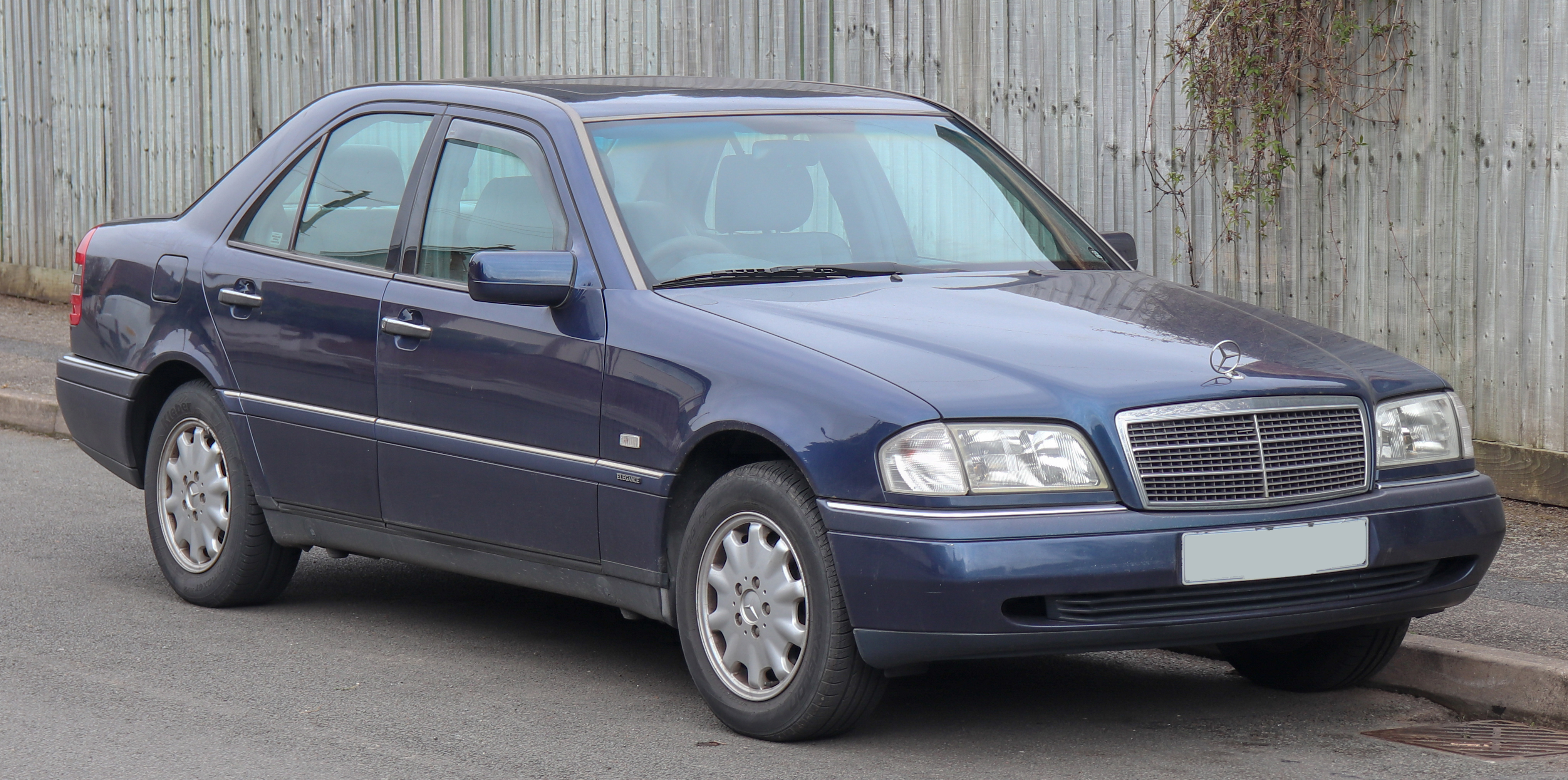 1997 Mercedes-Benz C180 Elegance Automatic 1.8 Front Taken in Warwick